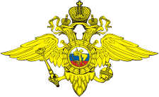 Emblem of the Interior Ministry of the Russian Federation